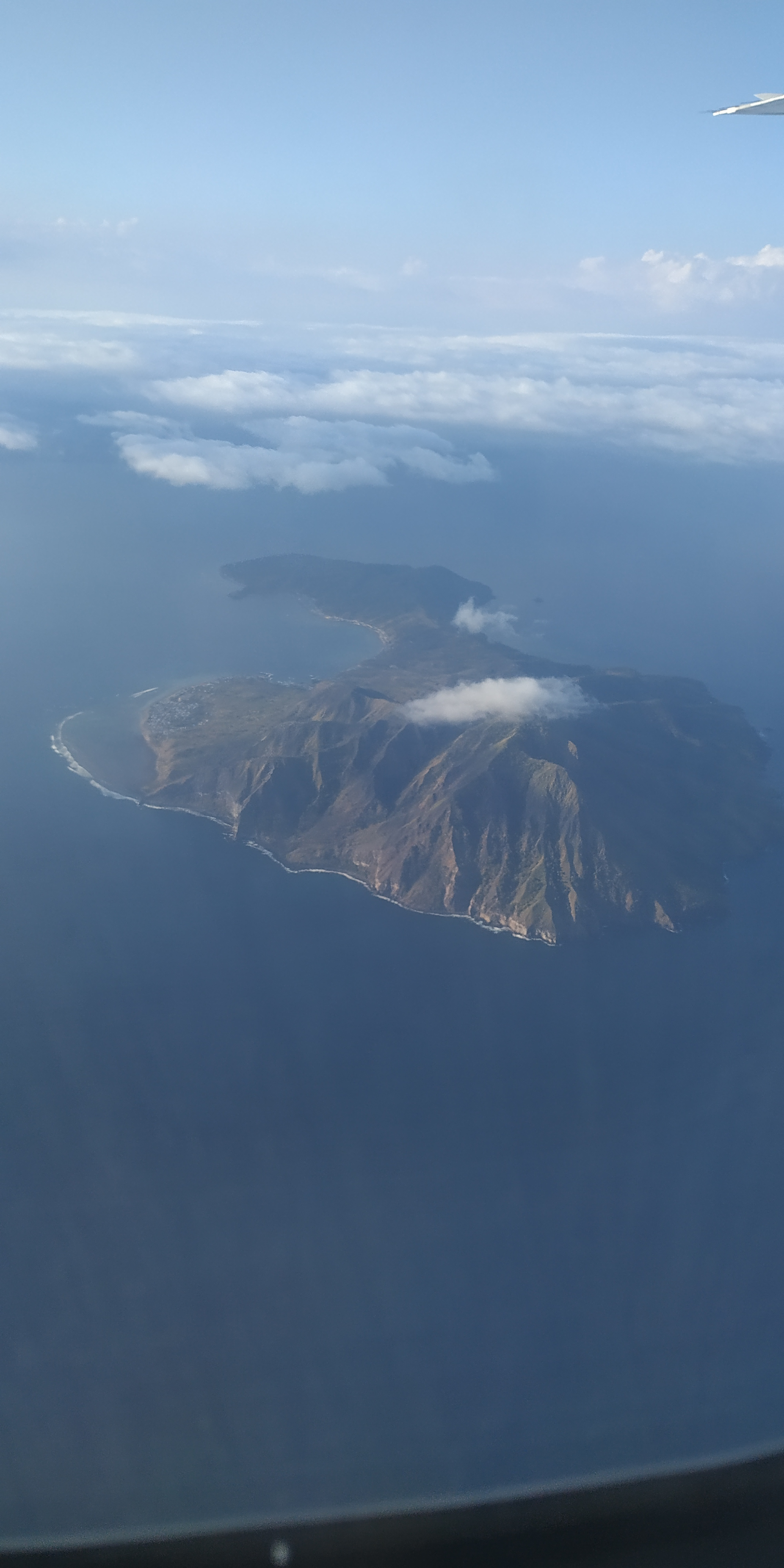 Ende Island.